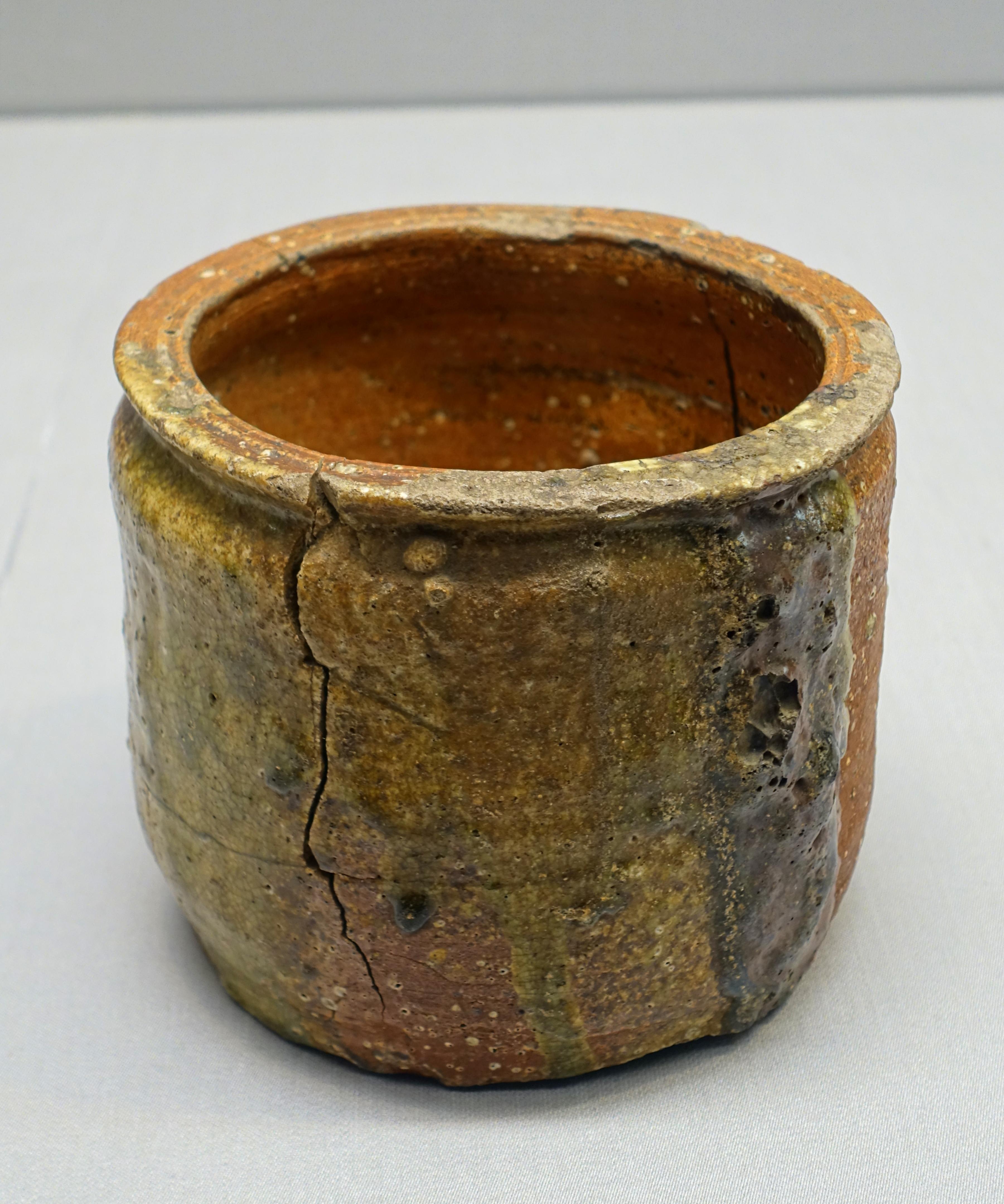 Exhibit in the Tokyo National Museum, Tokyo, Japan. This work is old enough so that it is in the public domain.